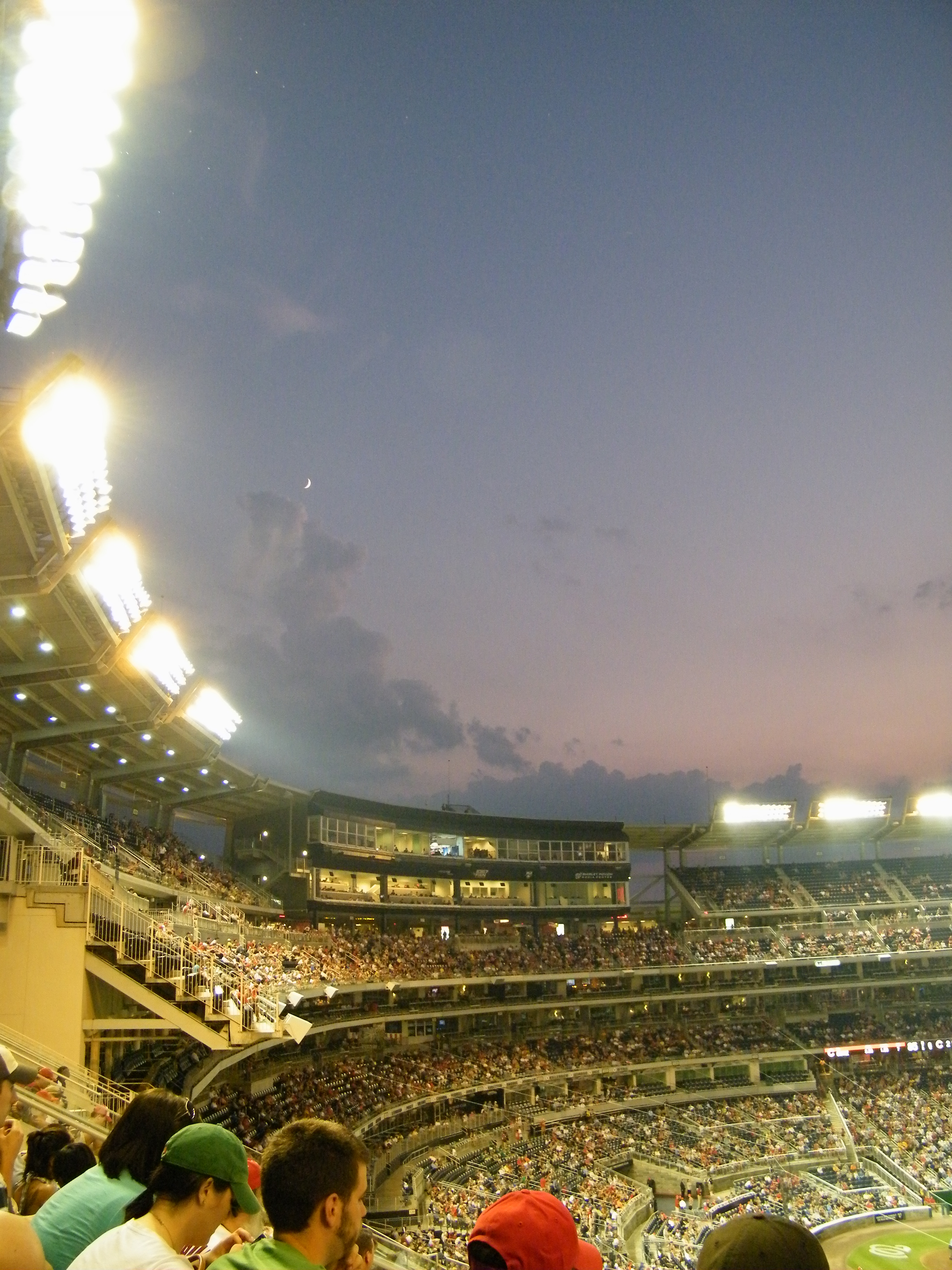 Nationals Park, Washington, D.C.